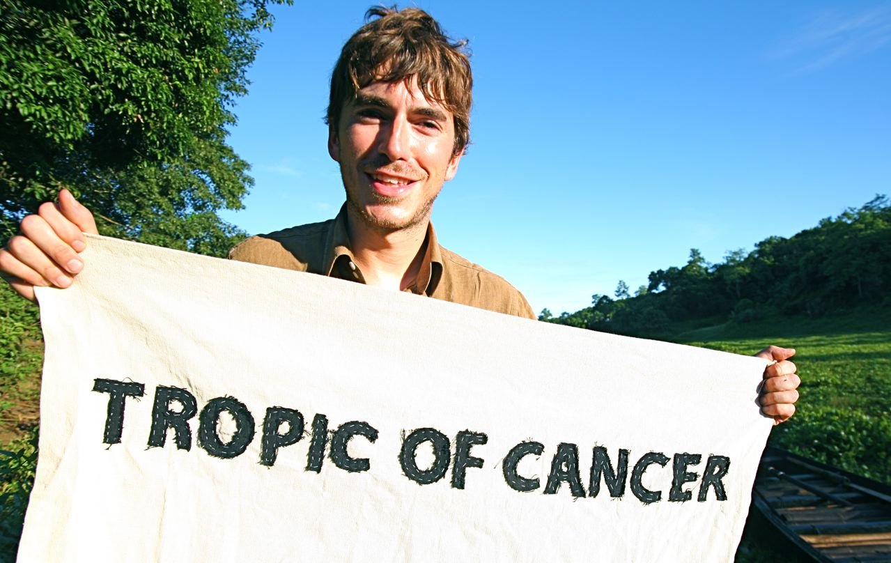 TROPIC OF CANCER WITH SIMON REEVE - author and TV presenter Simon Reeve on his epic journey around the Tropic of Cancer, the northern border of the tropics region. Simon has previously travelled around the Equator and the Tropic of Capricorn for BBC series shown in 2006 and 2008. Photograph © Simon Reeve.